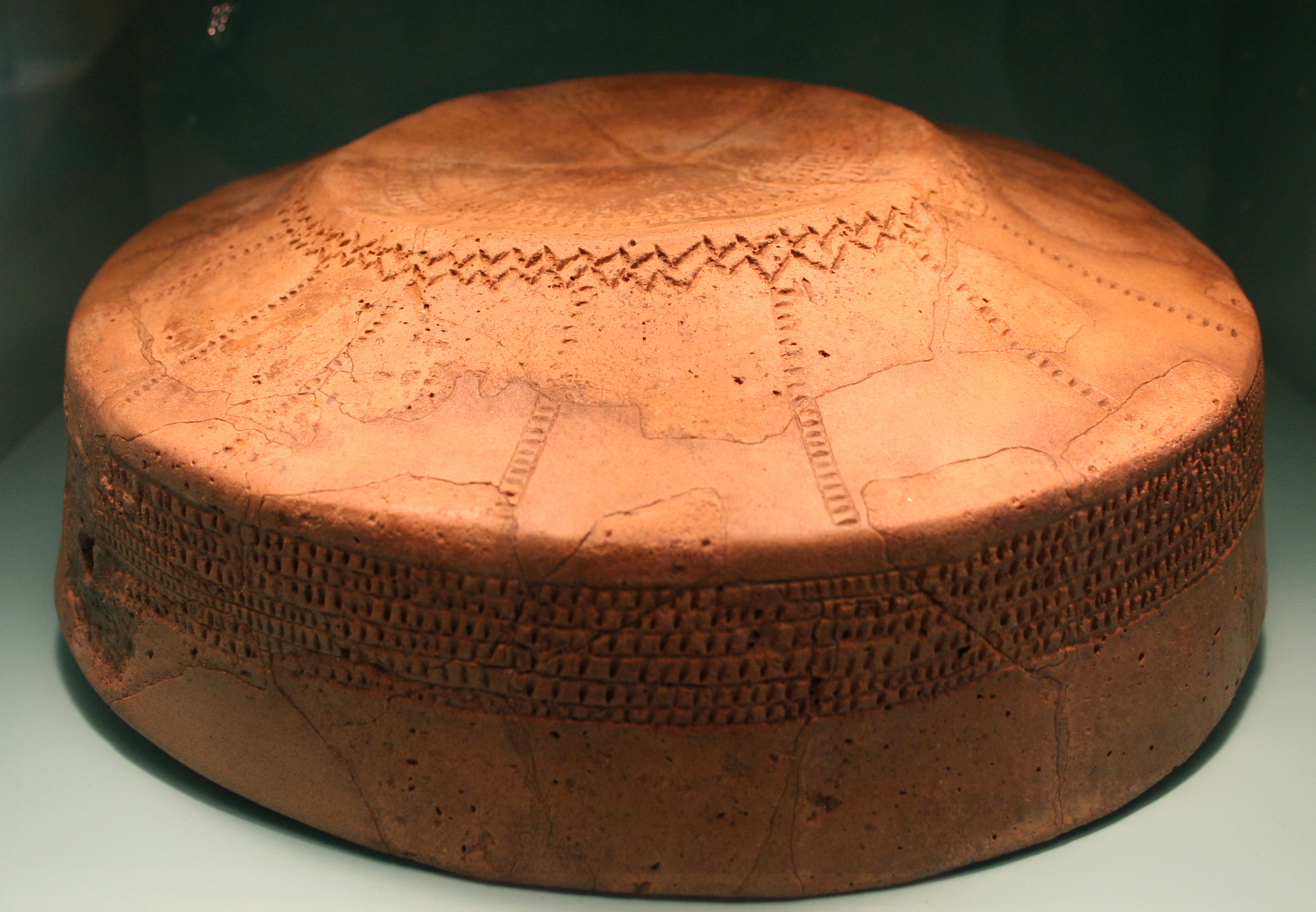 Museum für Vor- und Frühgeschichte (Museum of prehistory and early history), Berlin